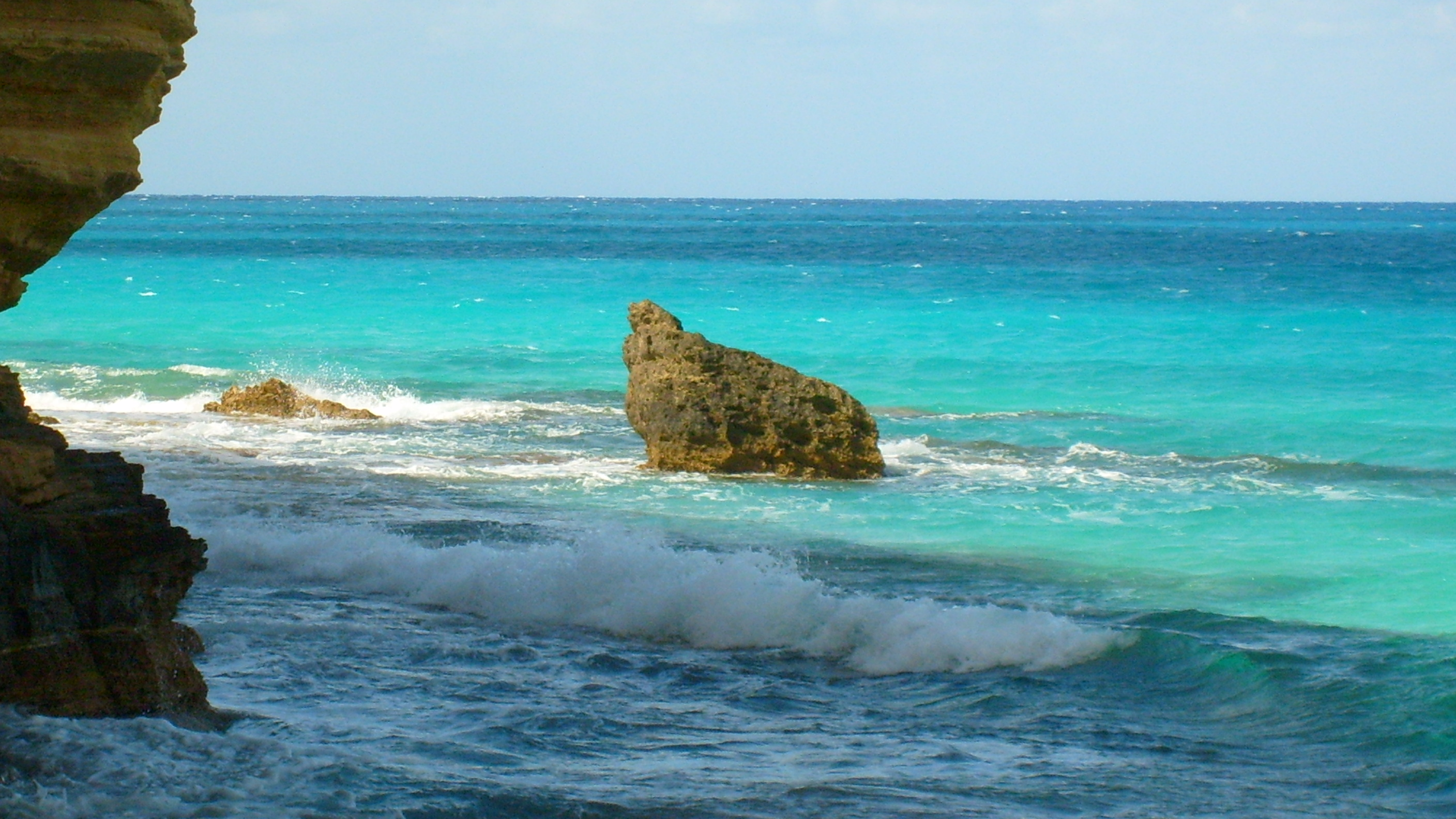 ageba beach in Marsa matrouh, Egypt